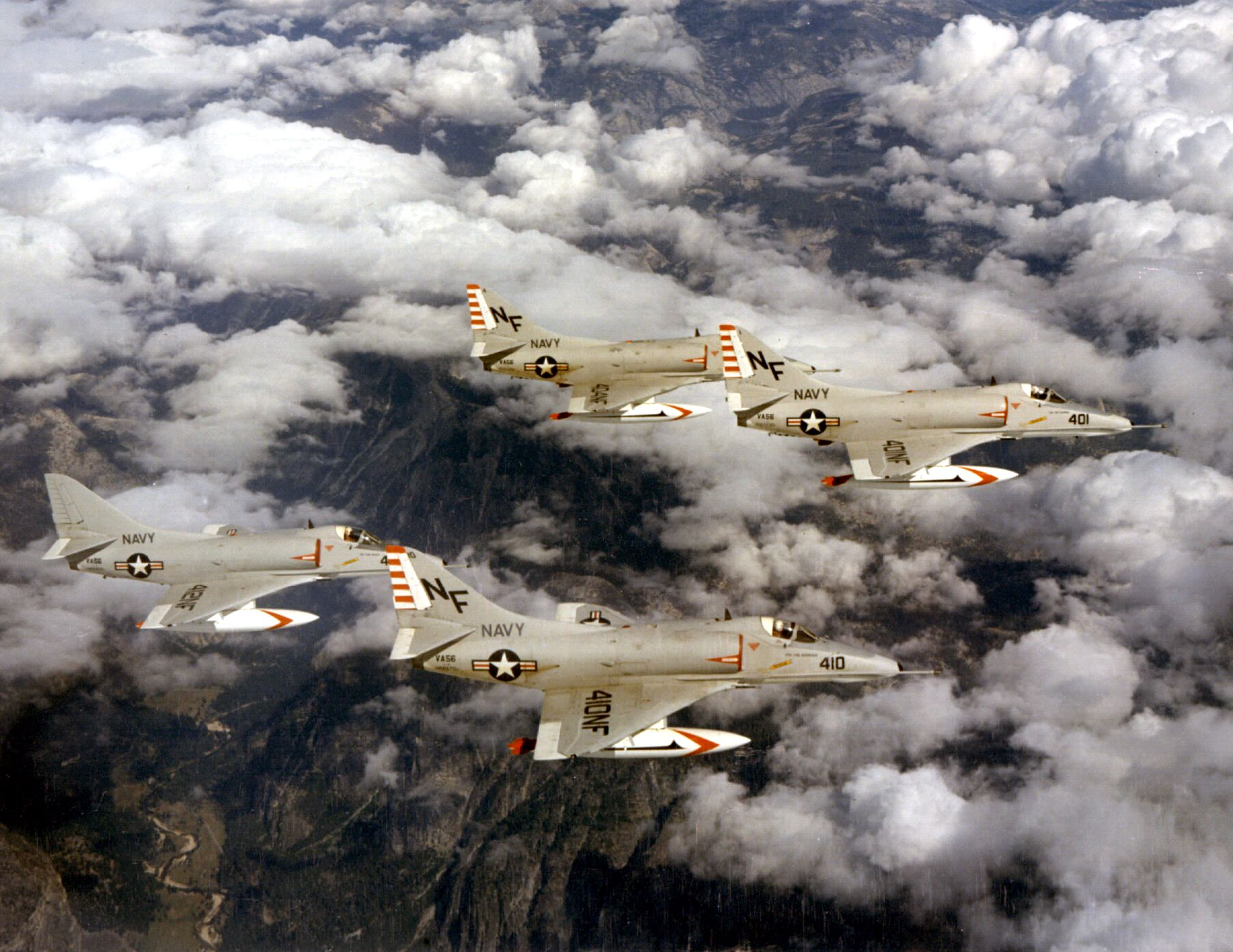 Four U.S. Navy Douglas A-4E Skyhawk from Attack Squadron 56 (VA-56) "Champions" in flight. Flying the A-4E, VA-56 was assigned to Carrier Air Wing 5 (CVW-5) aboard the aircraft carrier USS Ticonderoga (CVA-14) from 1964 to 1966.